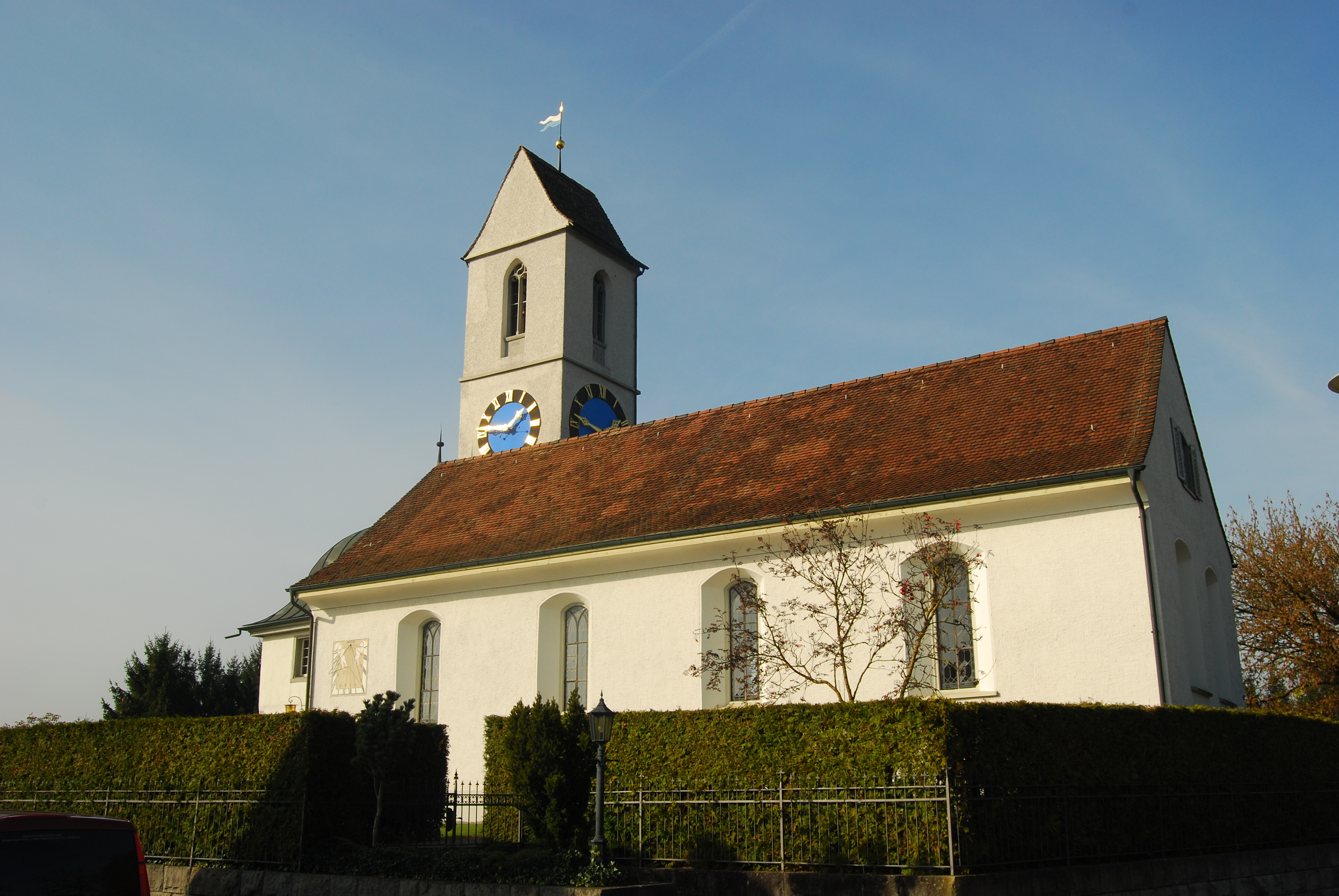 Church of Ellikon an der Thur, canton of Zürich, SwitzerlandEsperanto: Preĝejo de Ellikon ĉe Turo, Kantono Zuriko, Svislando